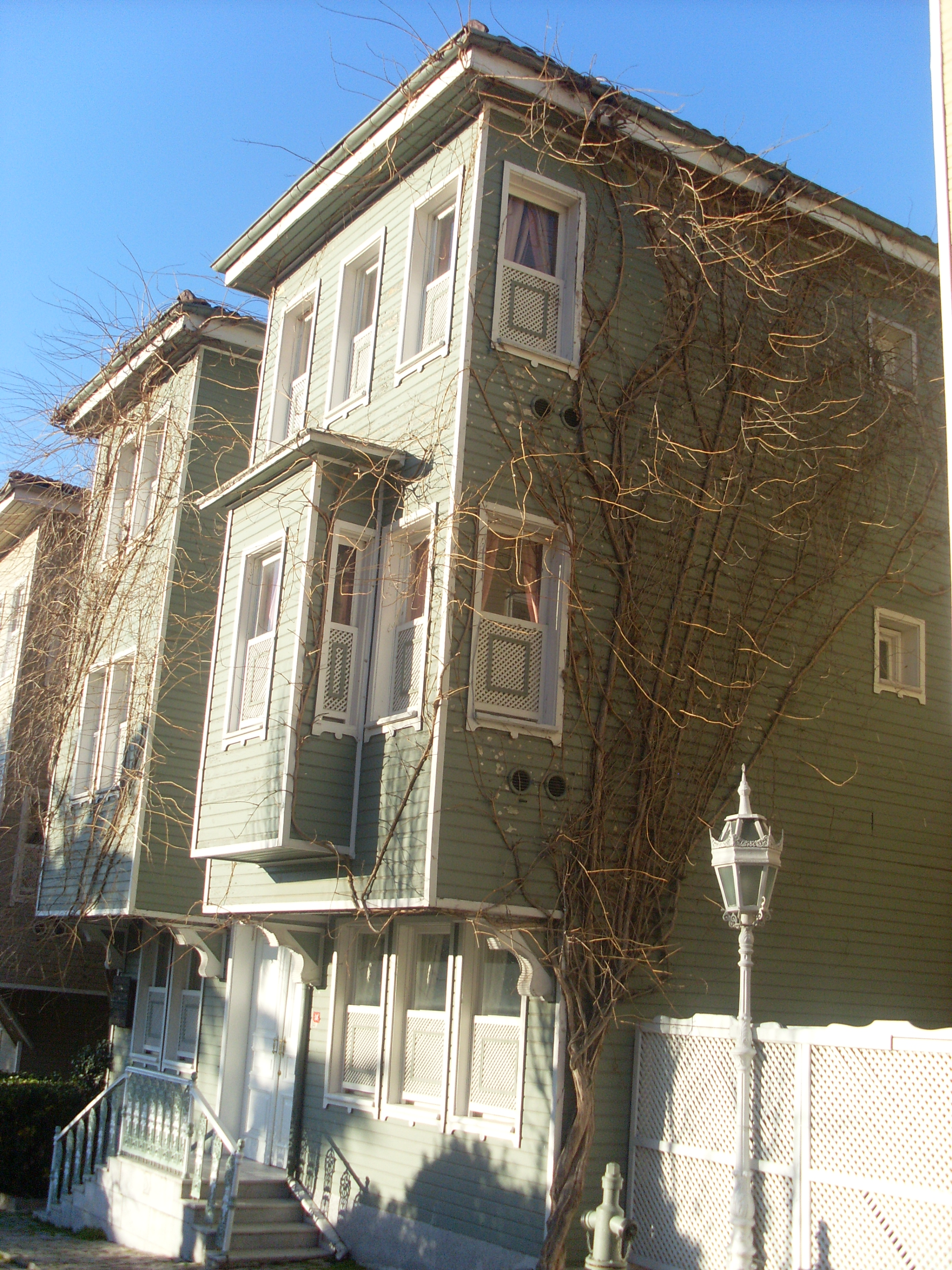 İstanbul - Soğukçeşme Sokağı r5 - Mar 2013